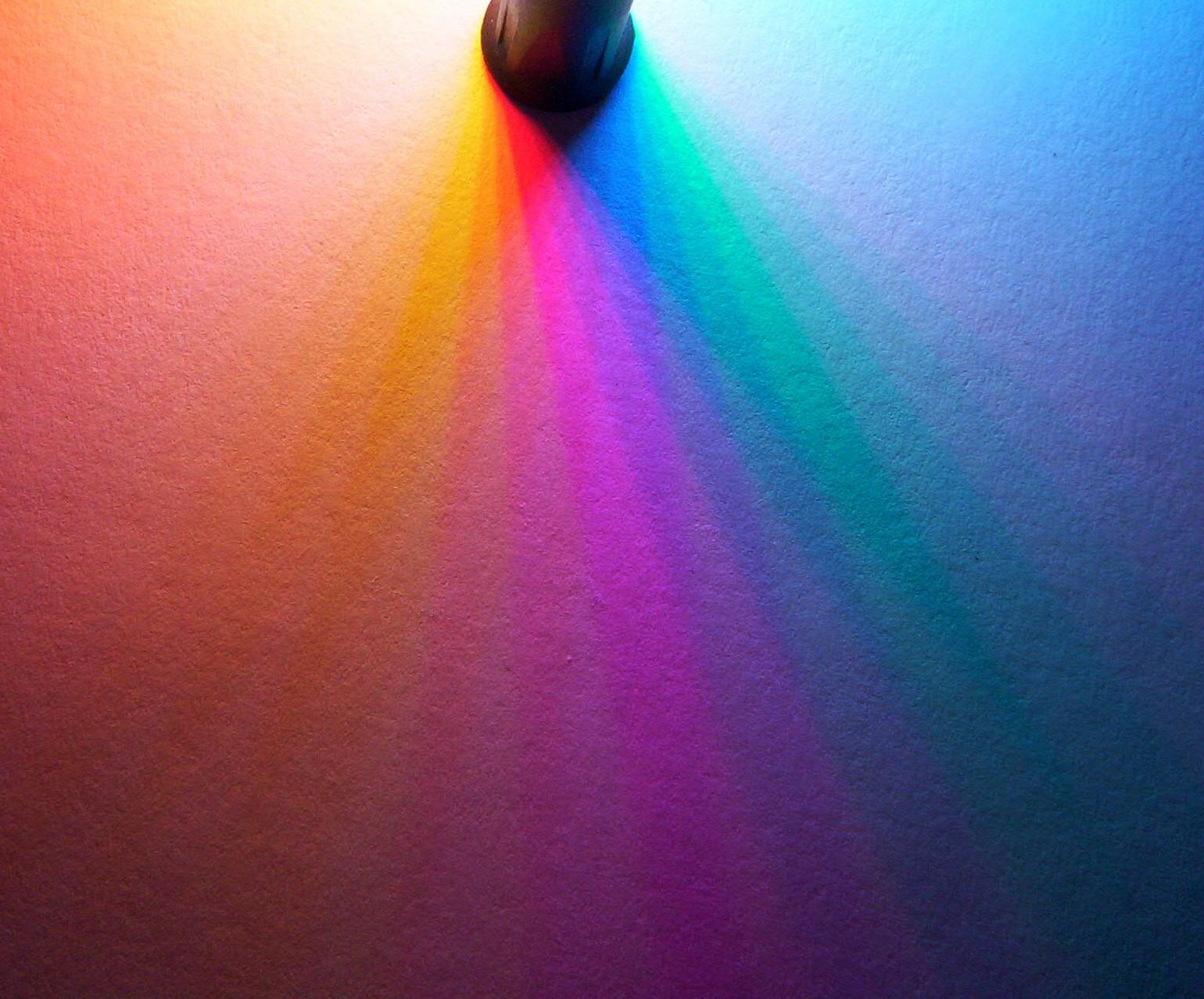 Coloured shadows, presumably caused by use of multiple coloured lights at different angles